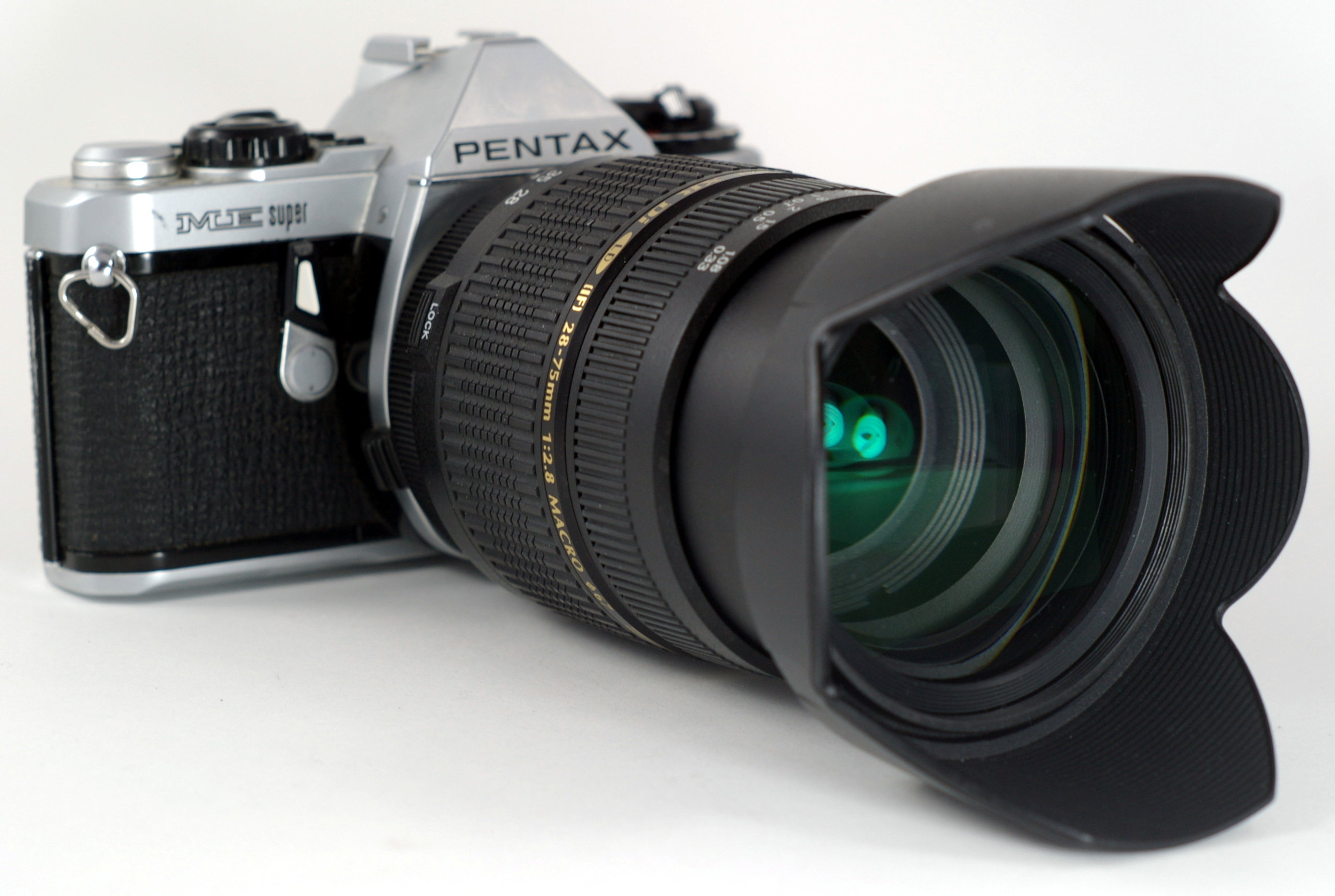 A Tamron SP AF28–75mm f/2.8 XR Di LD Aspherical (IF) on a Pentax ME Super for scale.